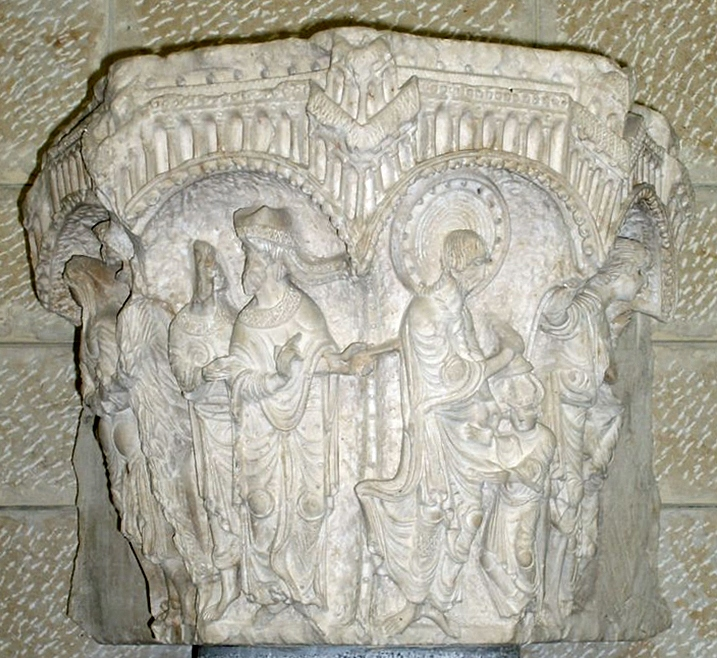 Capital of a column of the Crusader's Church of the Annunciation.